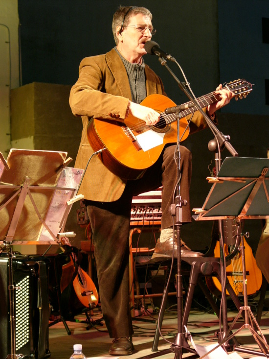 Valencian folk musician Vicent Torrent performing live with Al Tall in Benissa